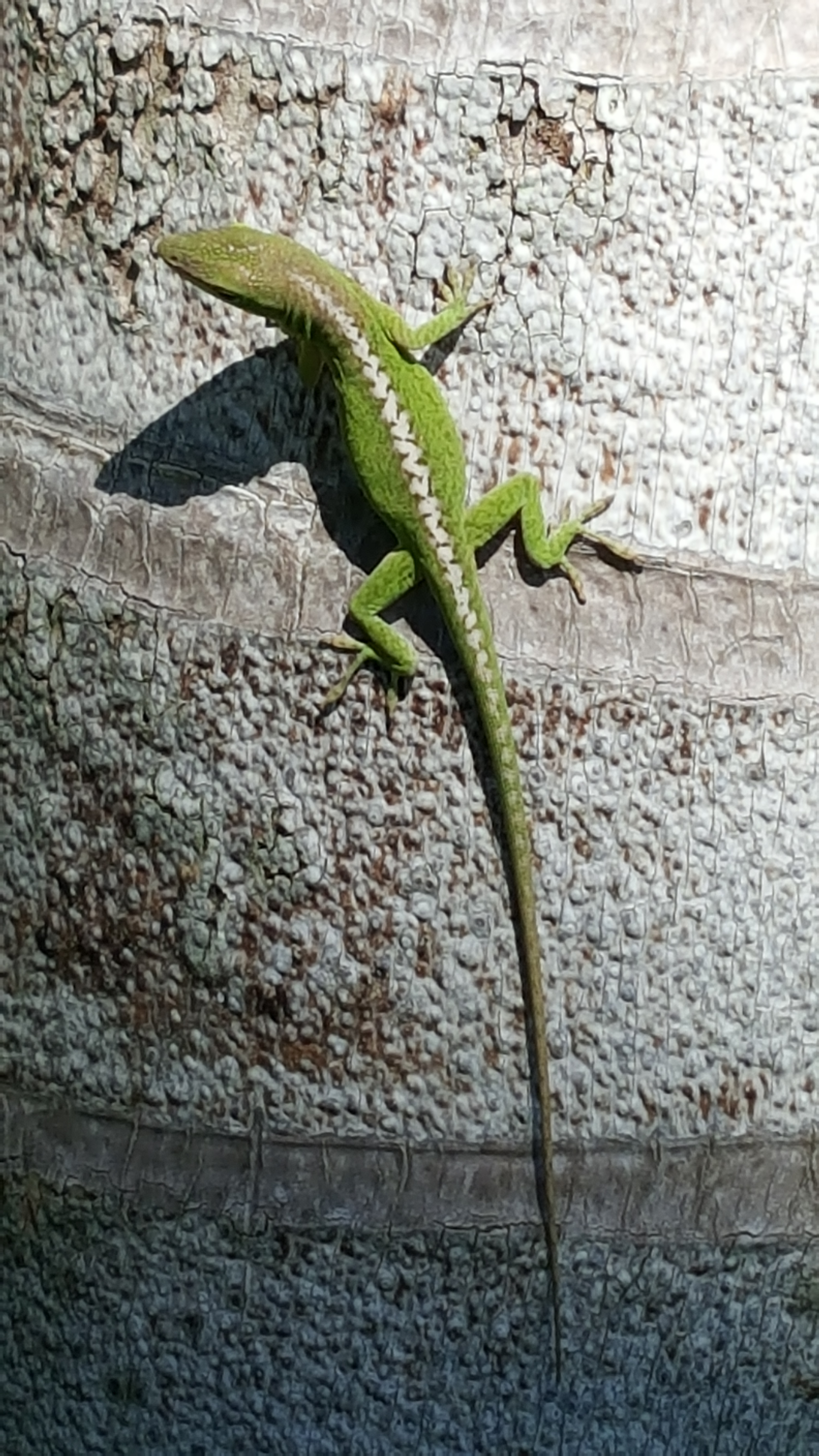 A green anole outside the San Diego Zoo. Green anoles are not native to California and are alien species.